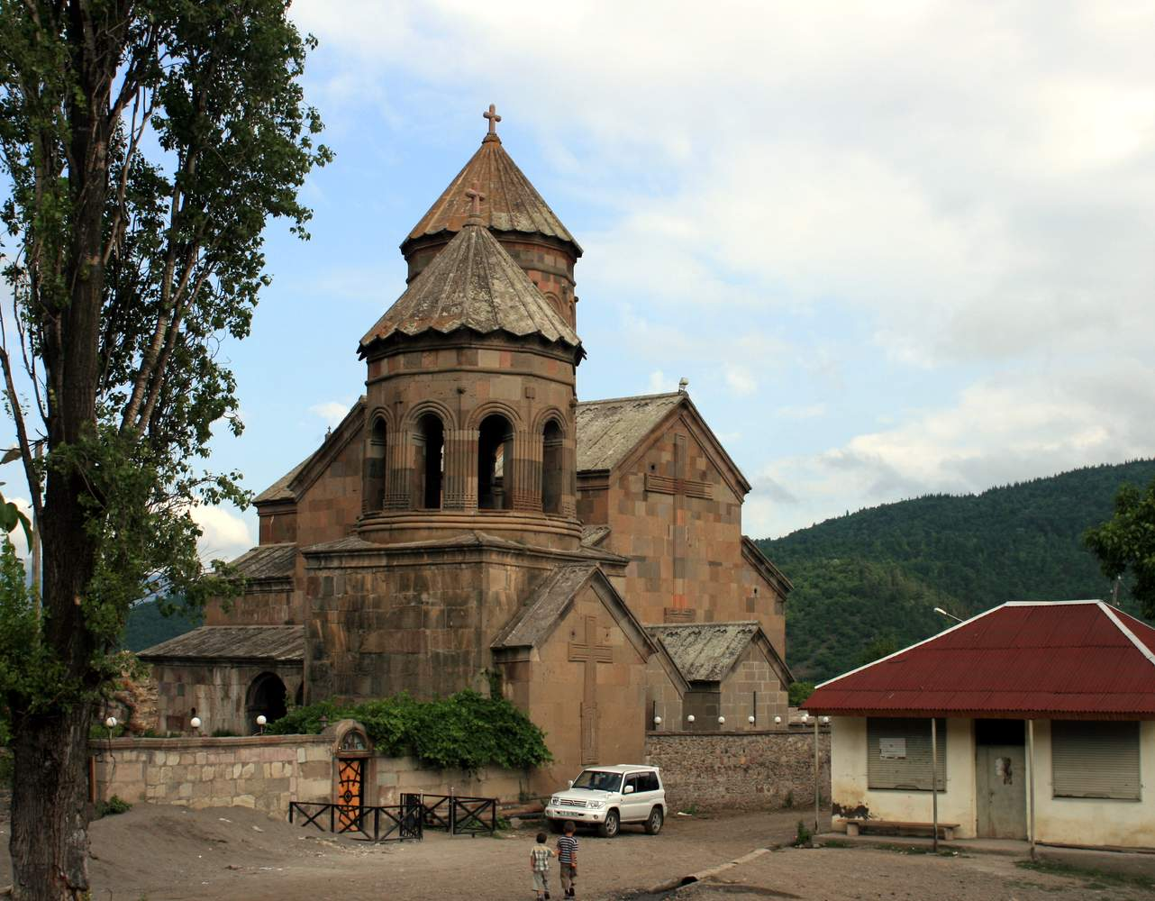 Zarzma monastery, Georgia